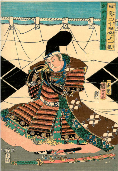 An ukiyo-e of Takeda Nobushige